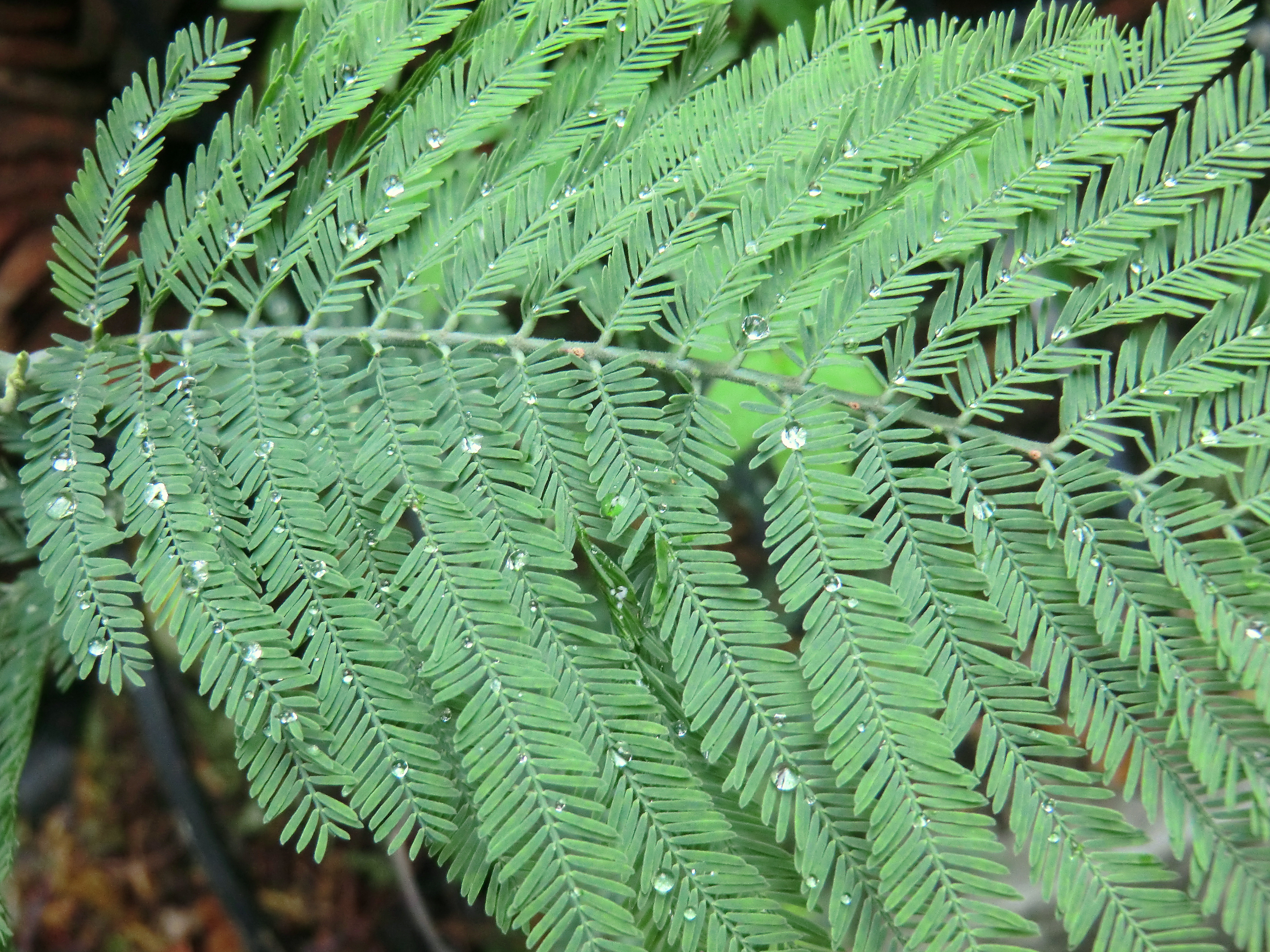 Leaf of a Acacia dealbata (also known as Silver Wattle or Mimosa).